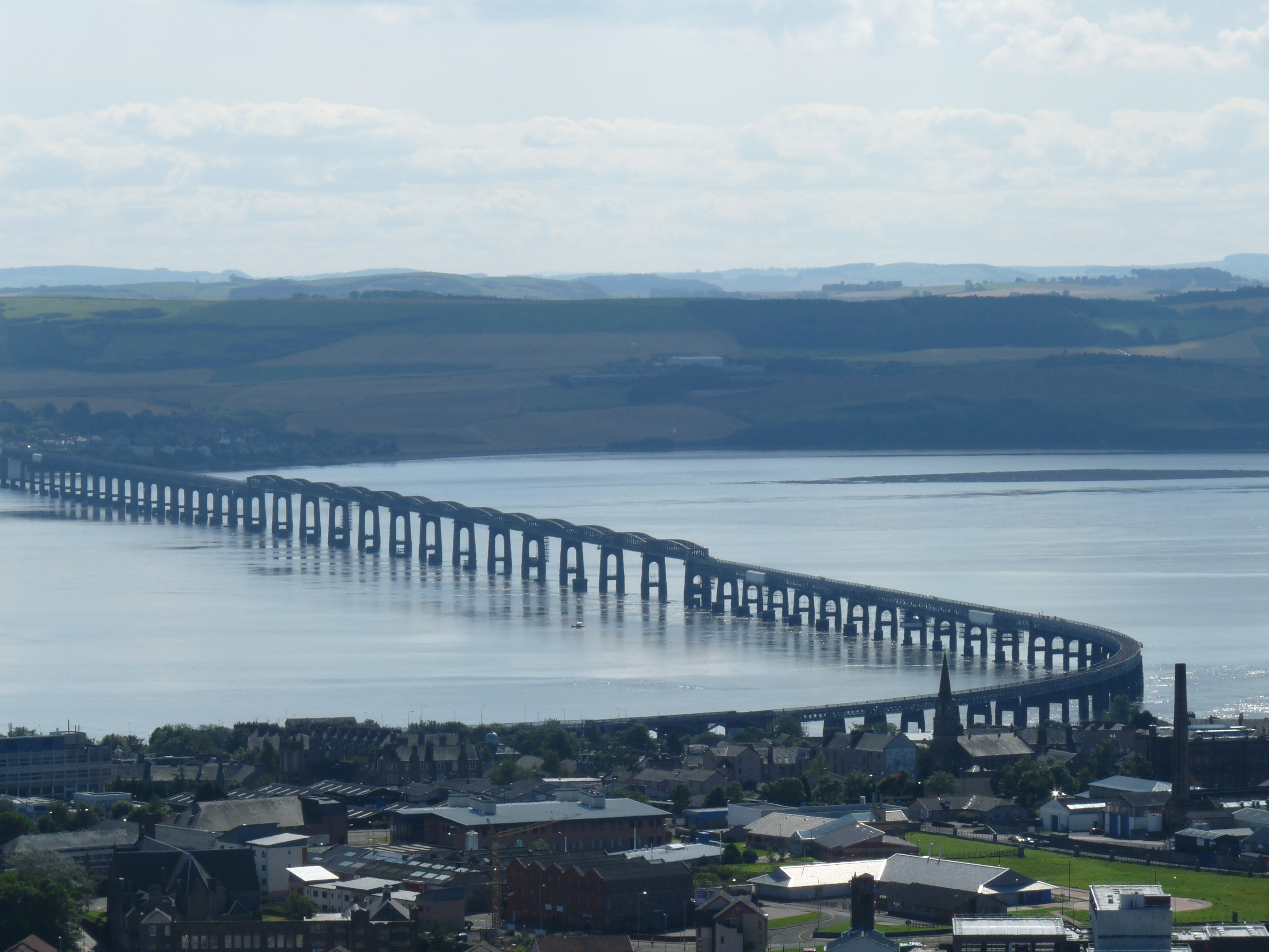 View from Dundee Law